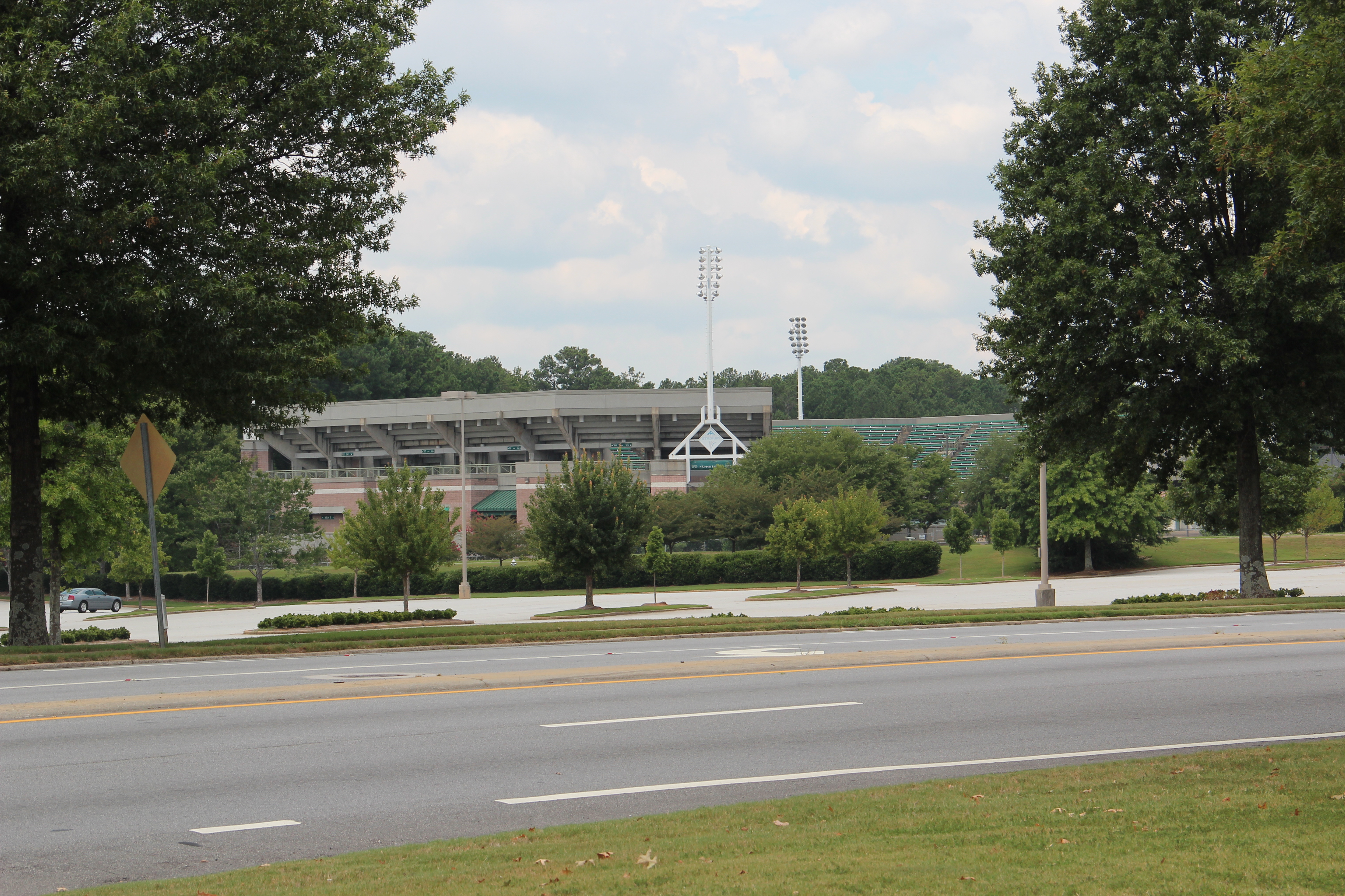 Stone Mountain Tennis Center, July 2016